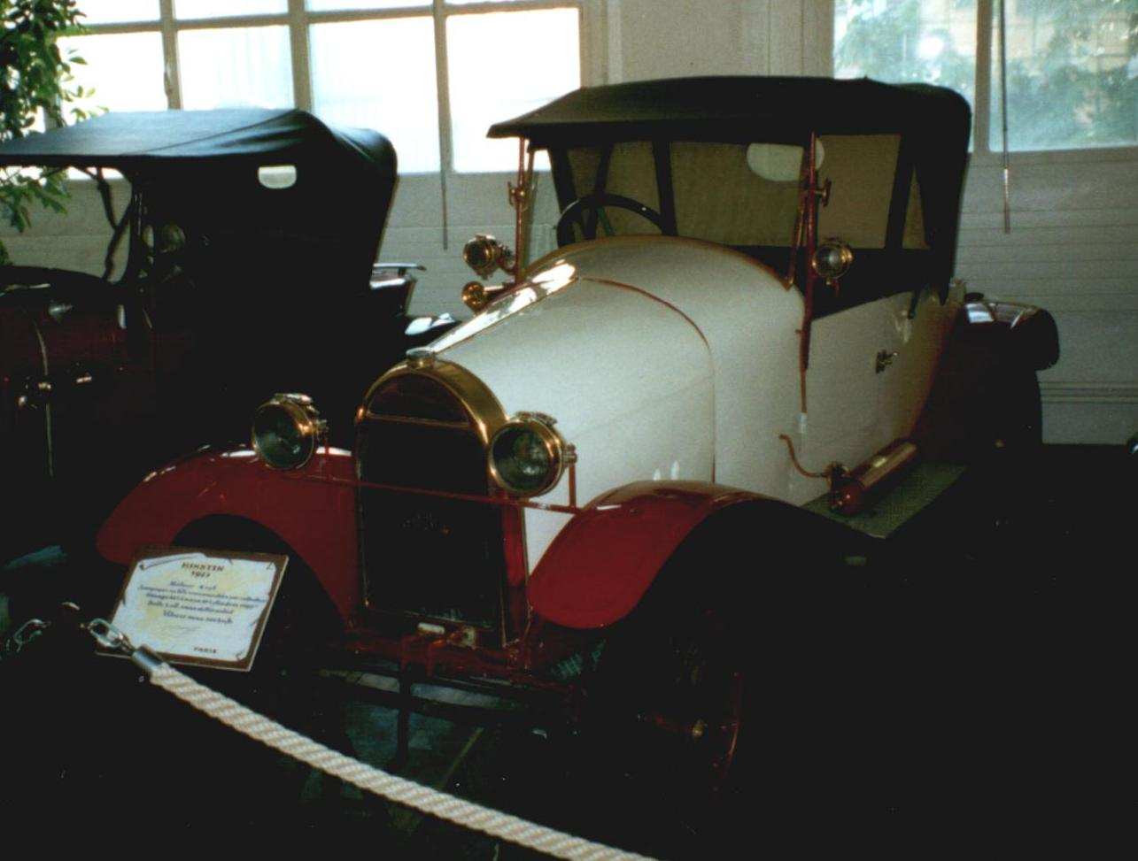 Hinstin 1921 (Country of origin: France)